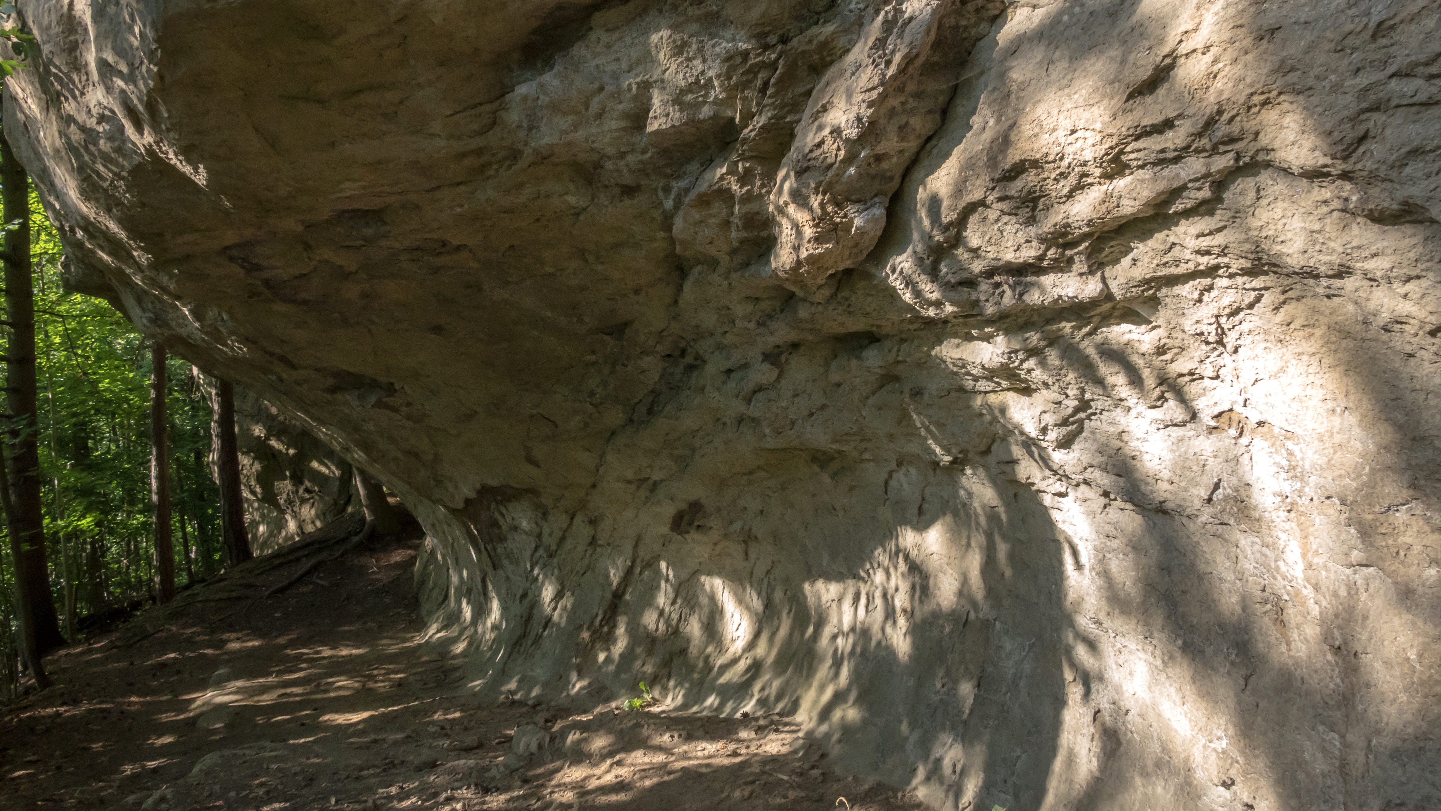 Landschaftsschutzgebiet Gleitsch FFH-Gebiet Saaletal zwischen Hohenwarte und Saalfeld Gleitsch V